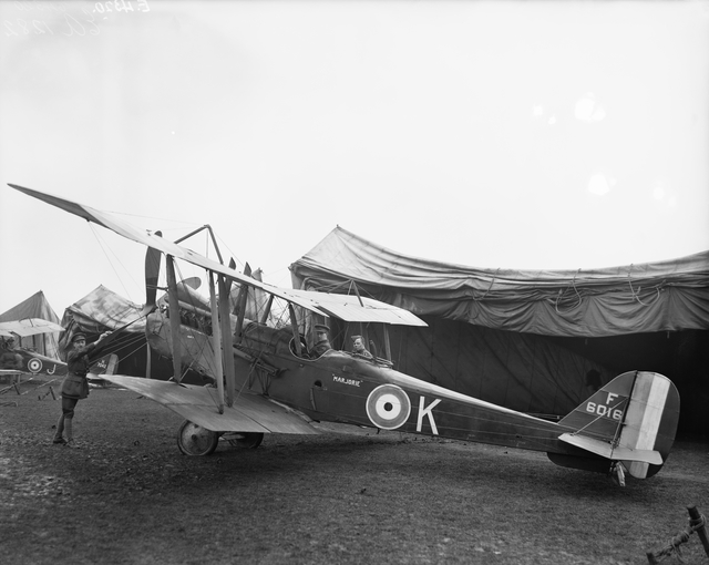 Belgium: Wallonie, Hainaut, Tarcienne. An R.E.8 Serial F6016, aircraft K of No. 3 Squadron, Australian Flying Corps. The aircraft was used by No. 3 Squadron for reconnaissance work. Note the name 'Marjorie' on the side of the aircraft.